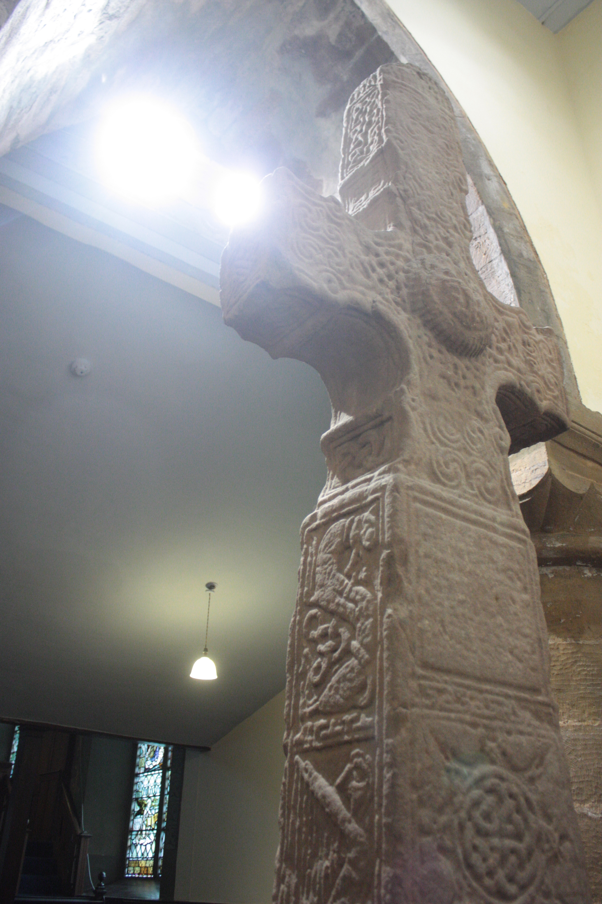 The Dupplin Cross, Dunning